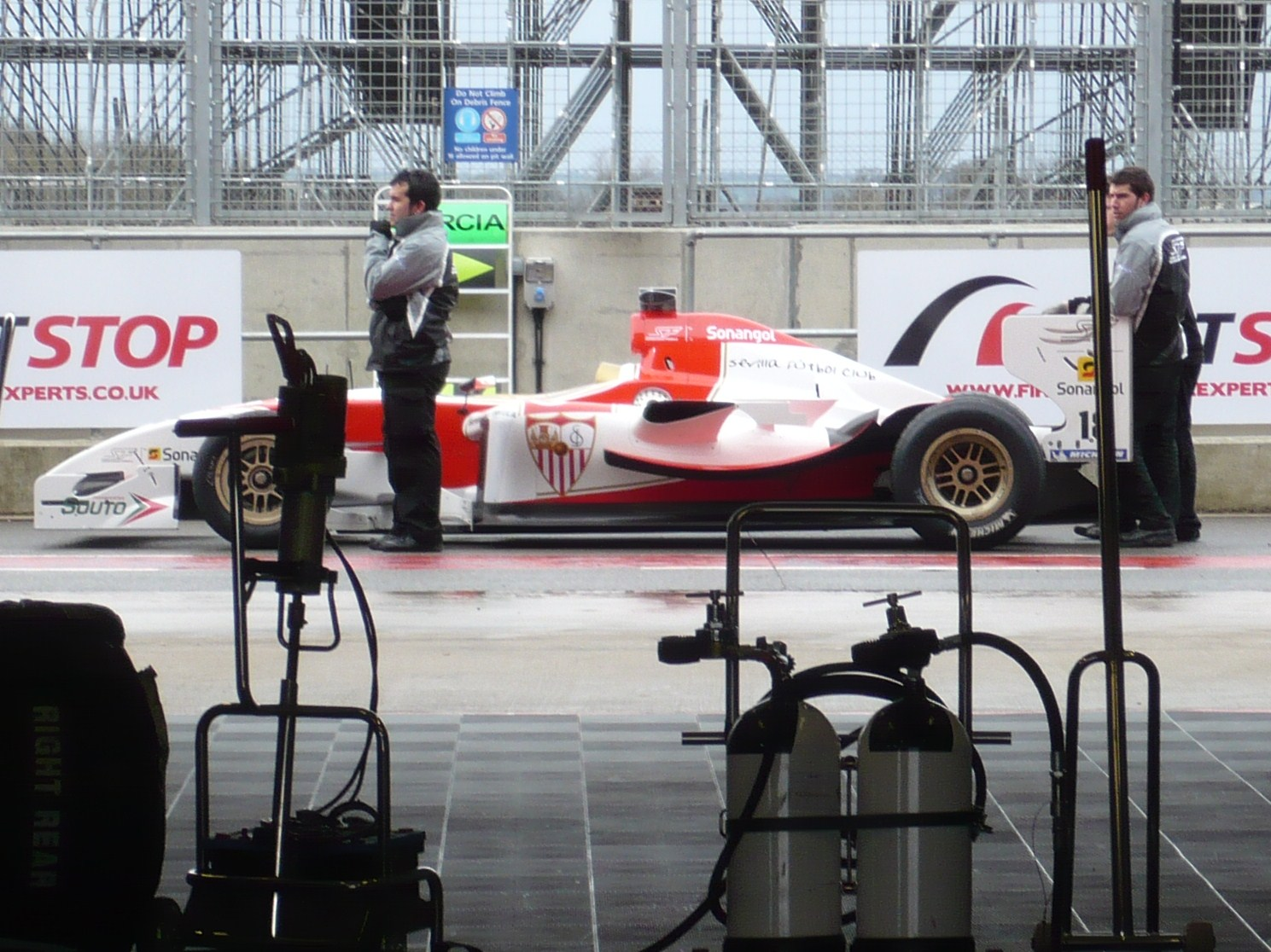 The Sevilla FC Superleague Formula car. Photo taken by me at Silverstone Circuit during its 2010 SF round.